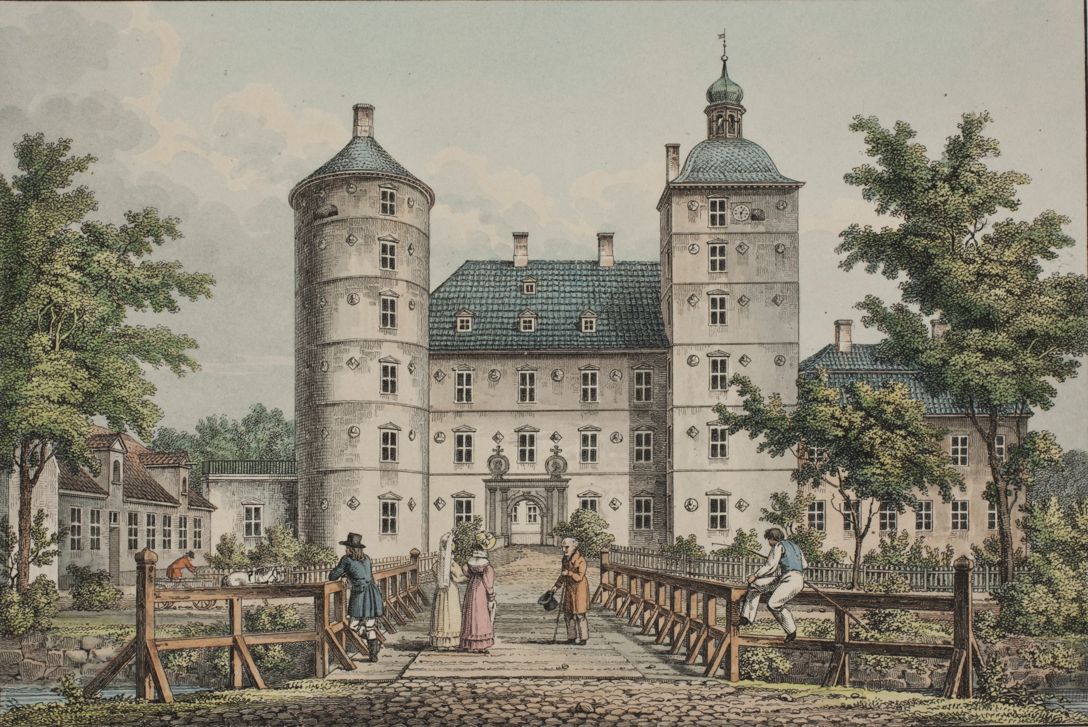 Jens Holm (1776-1859); H.G.F. Holm (1803-1861), Valloee, (1838)